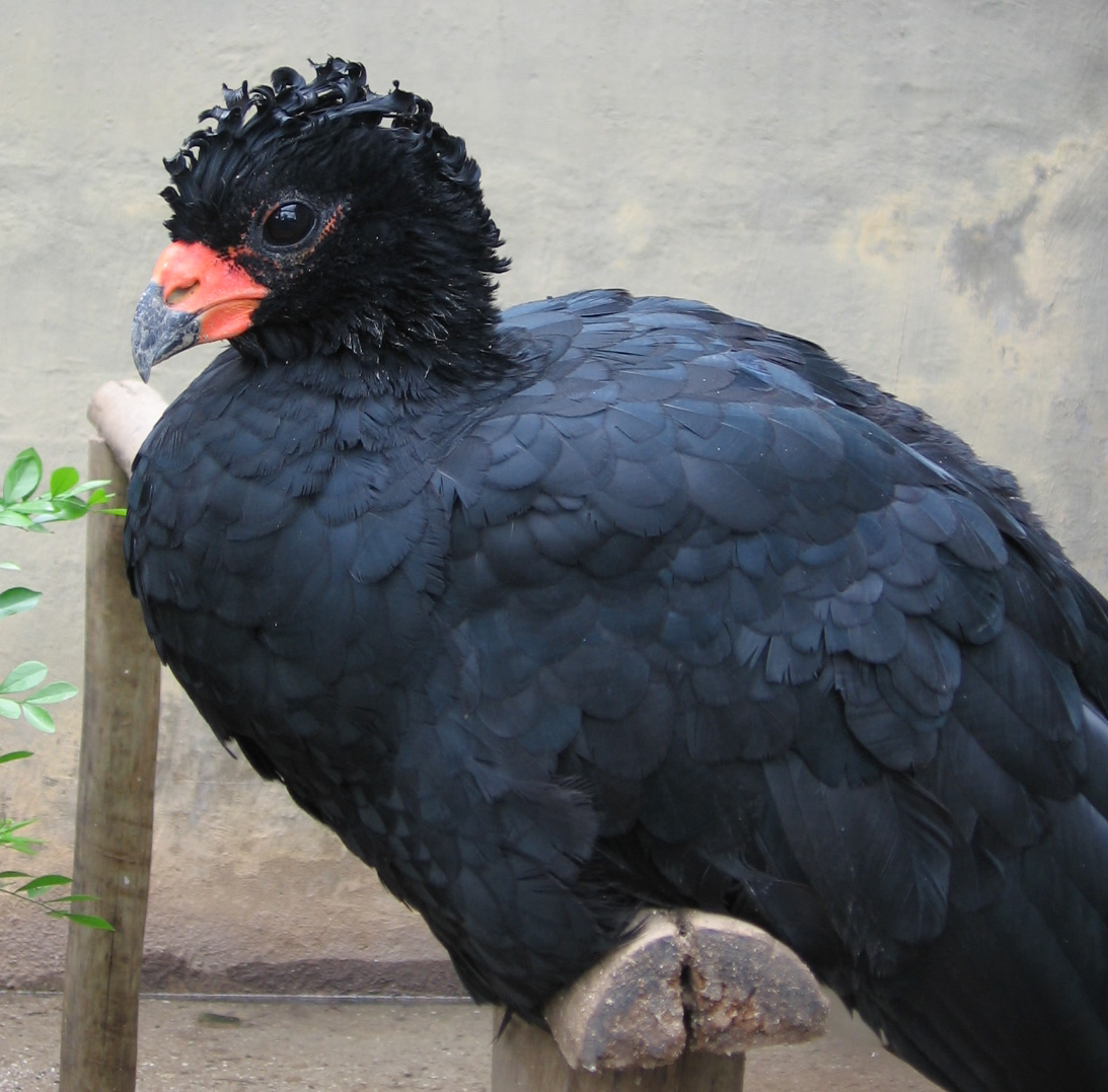 Crax blumenbachii in the Rio de Janeiro Zoo, Brazil.